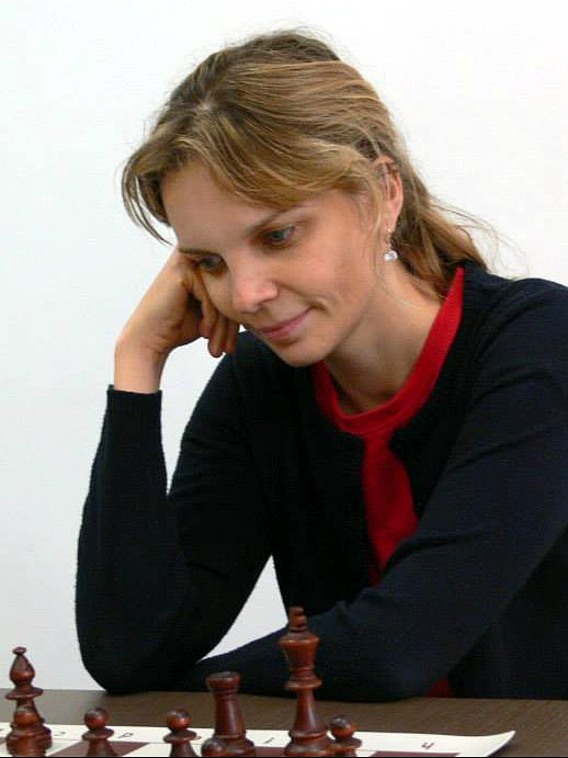 Women grandmaster Zuzana Stockova (Slovakia)